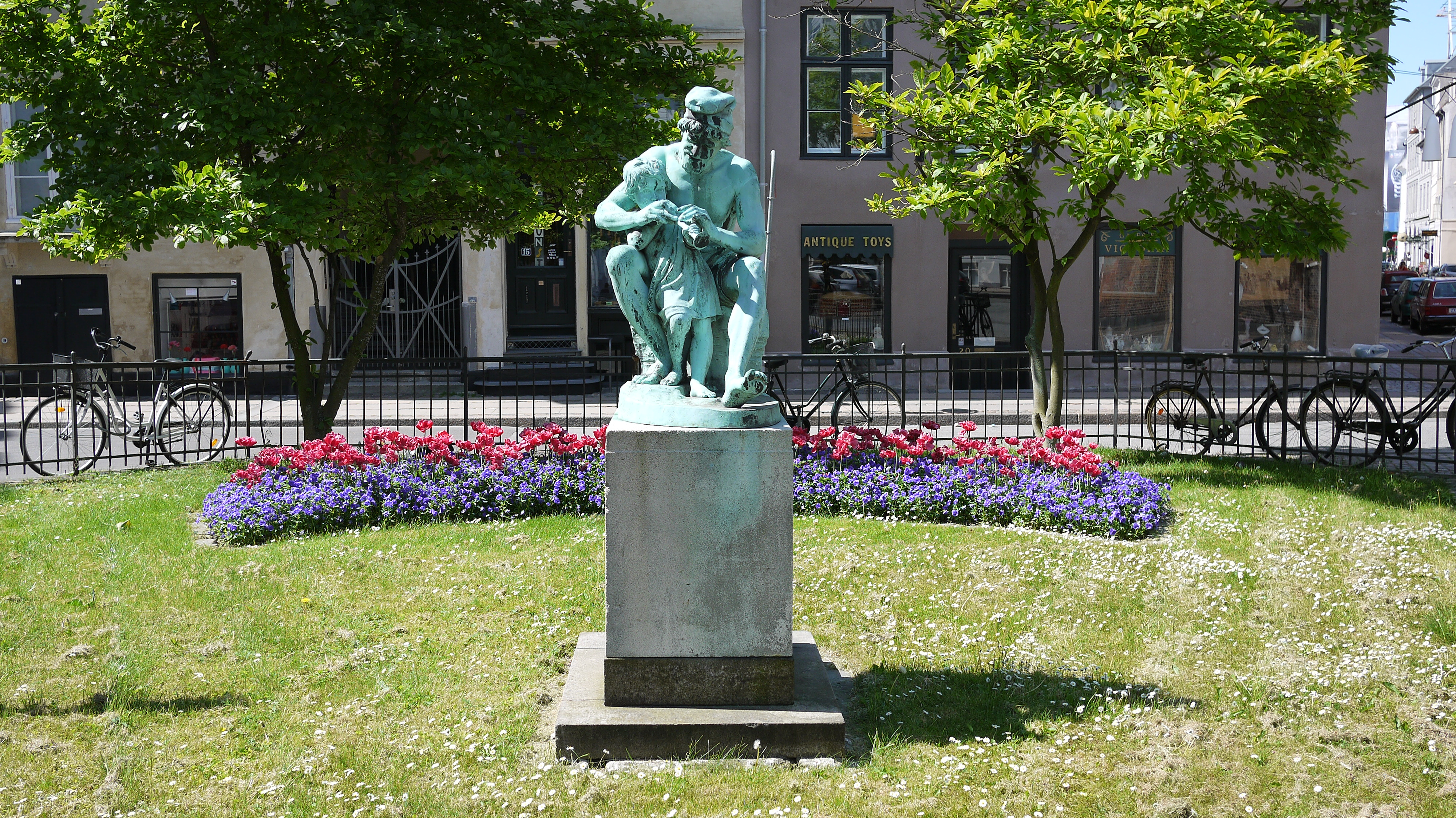 Statue at the corner of Store and Lille Strandstræde in Copenhagen, Denmark